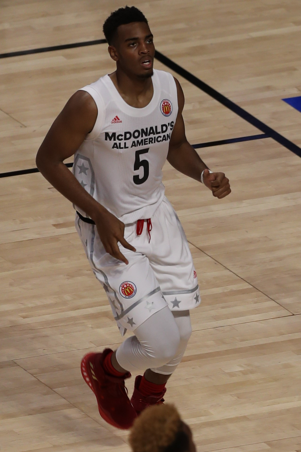 Troy Brown Jr. at the w:2017 McDonald's All-American Boys Game